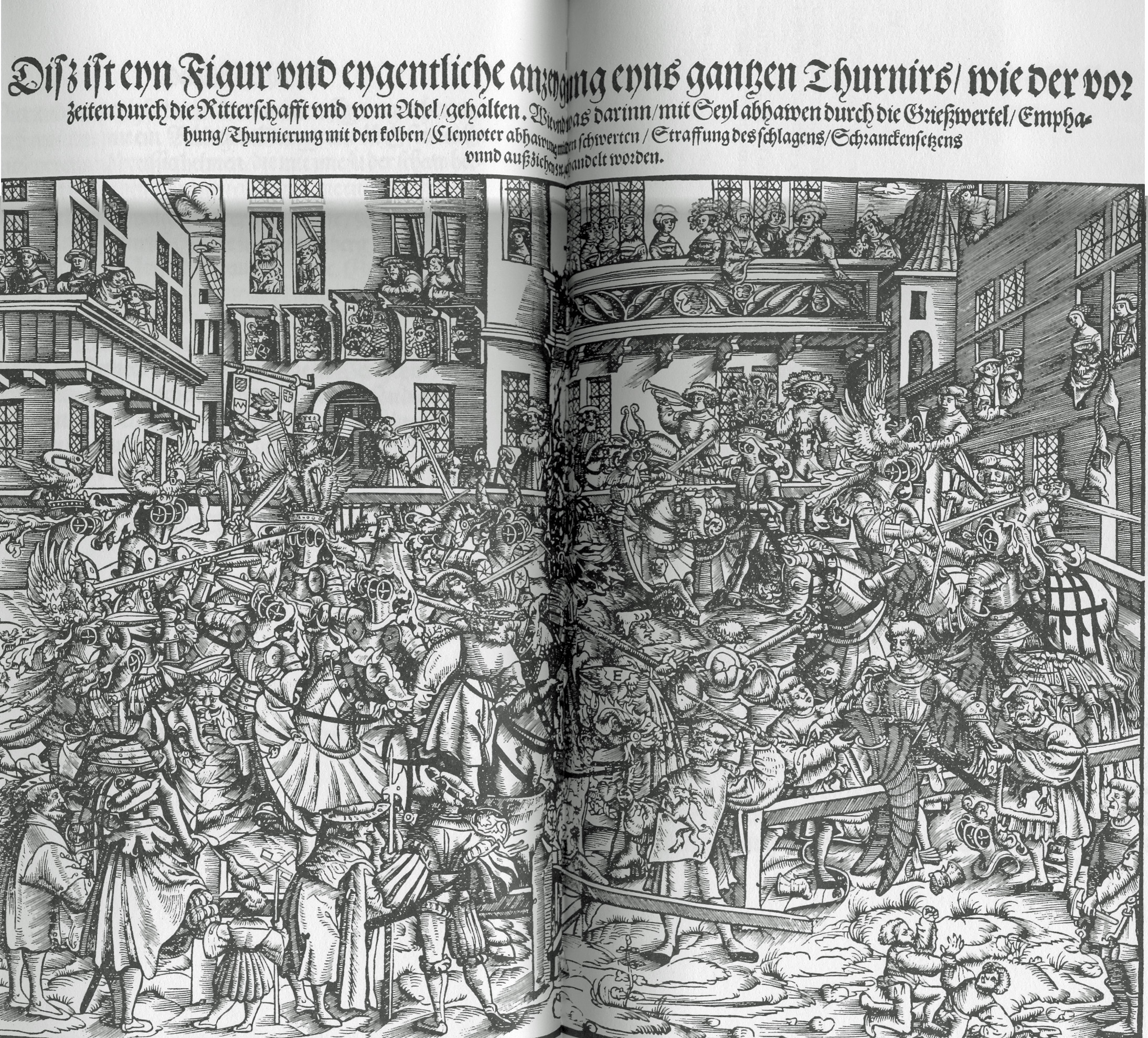 Tournament with clubs